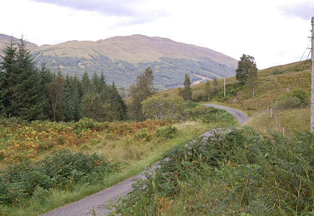 The B8074 road runs the length of Glen Orchy, generally close to the river except at this section south of Arichastlich